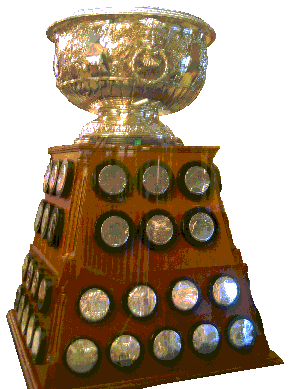 Art Ross Memorial Trophy